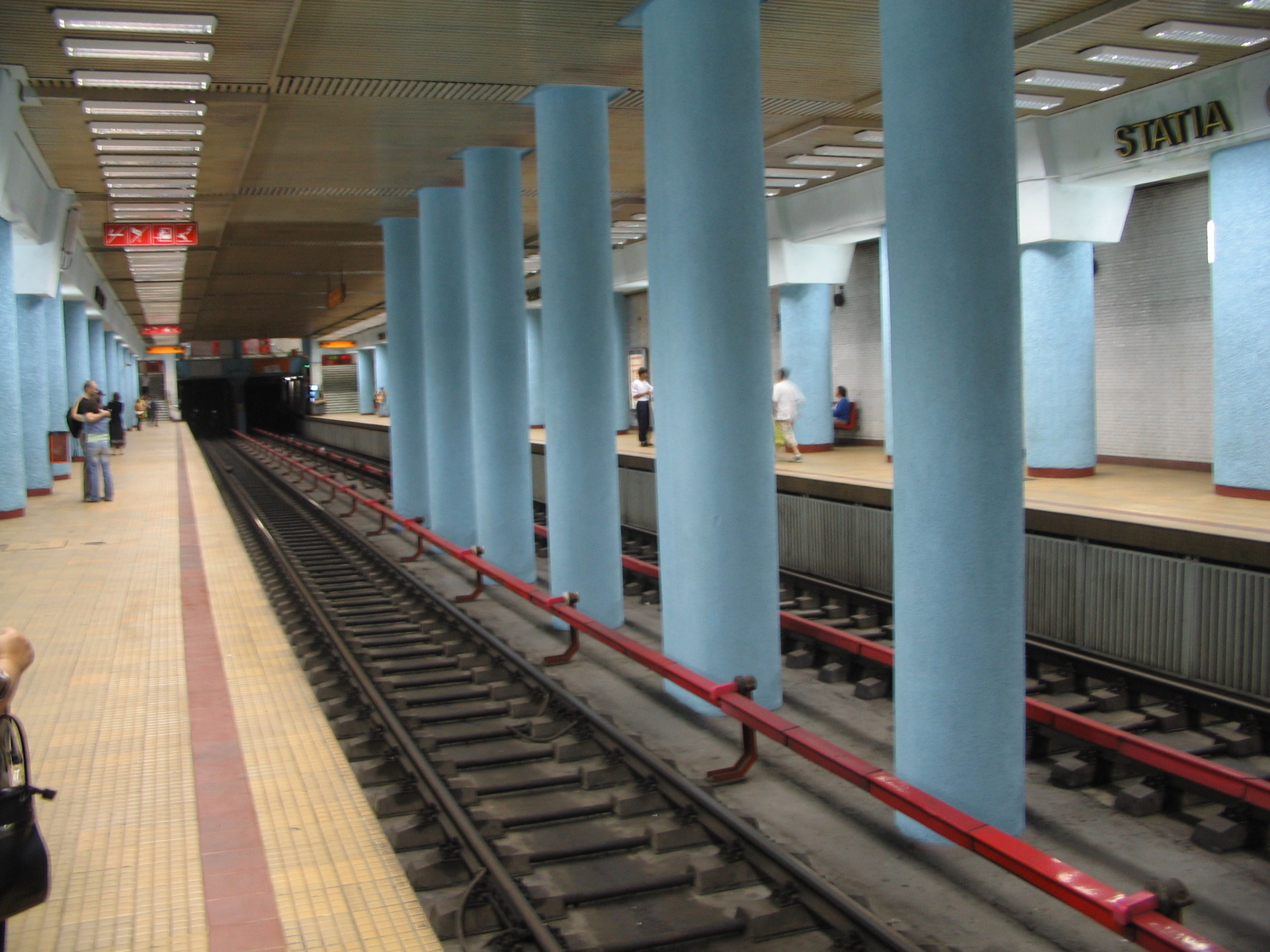 Inside the Obor metro station, Bucharest, Romania